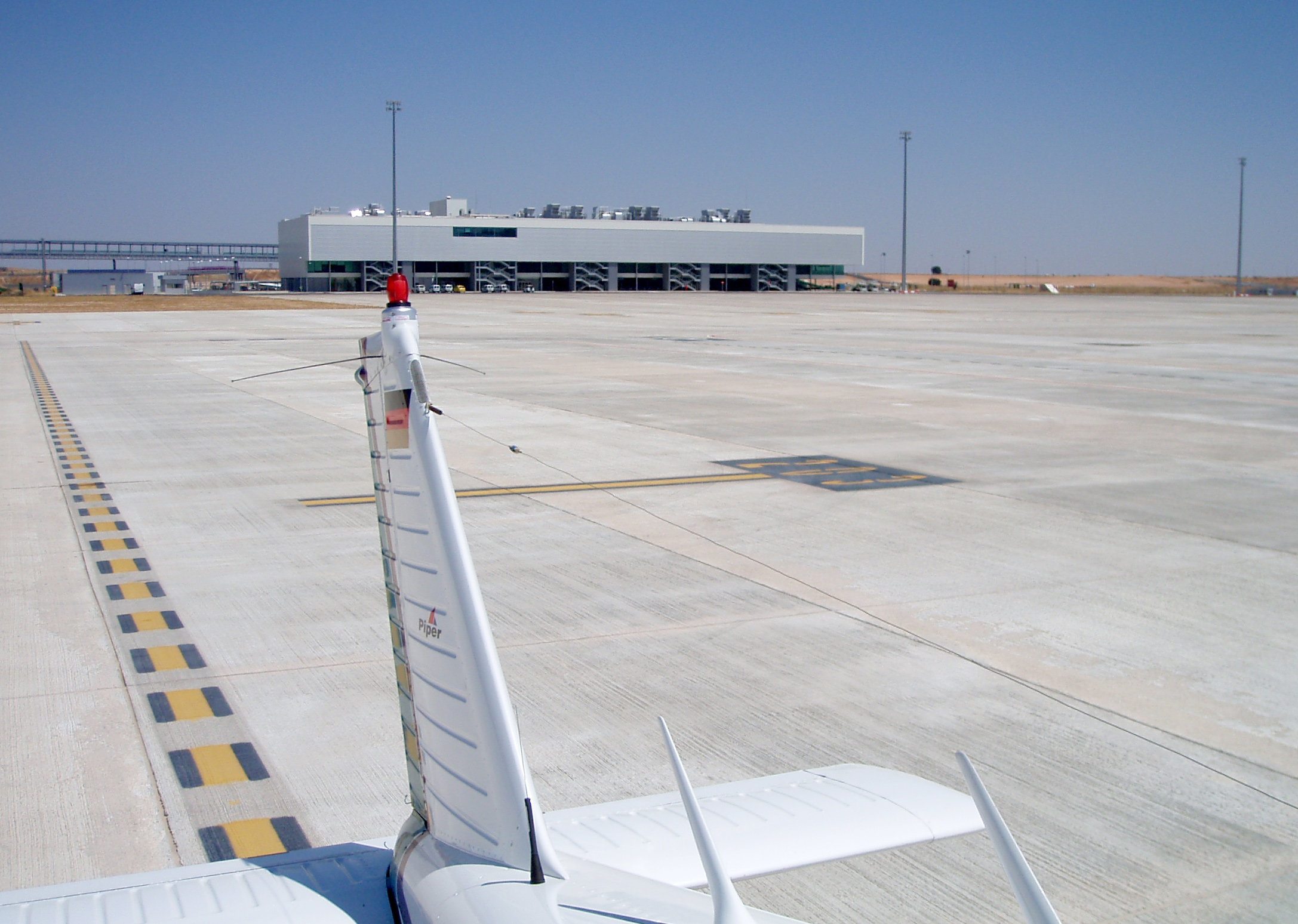 Airport Ciudad Real LERL "Don Quijote"